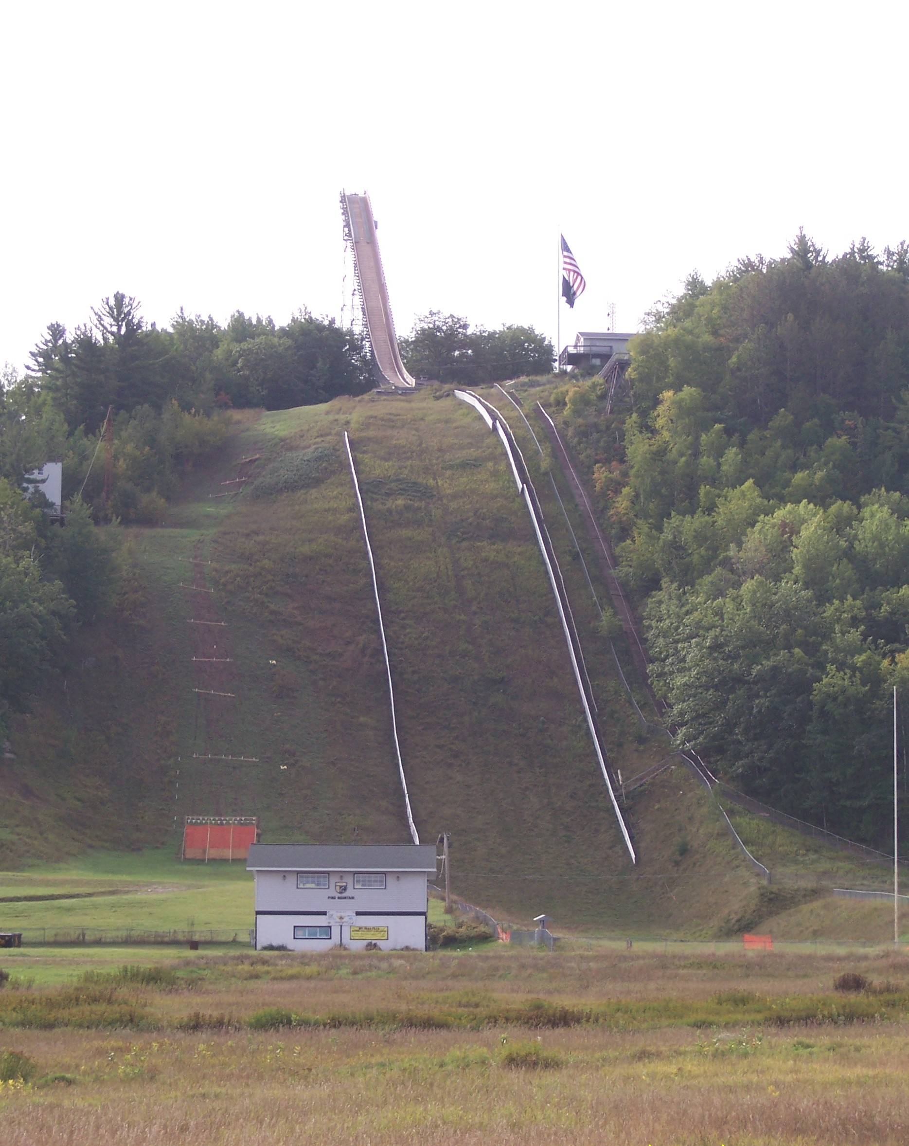 Pine Mountain Ski Jump